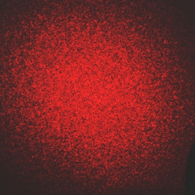 This is an objective speckle pattern which was created by scattering a laser beam off a plastic surface onto a wall and then photographed